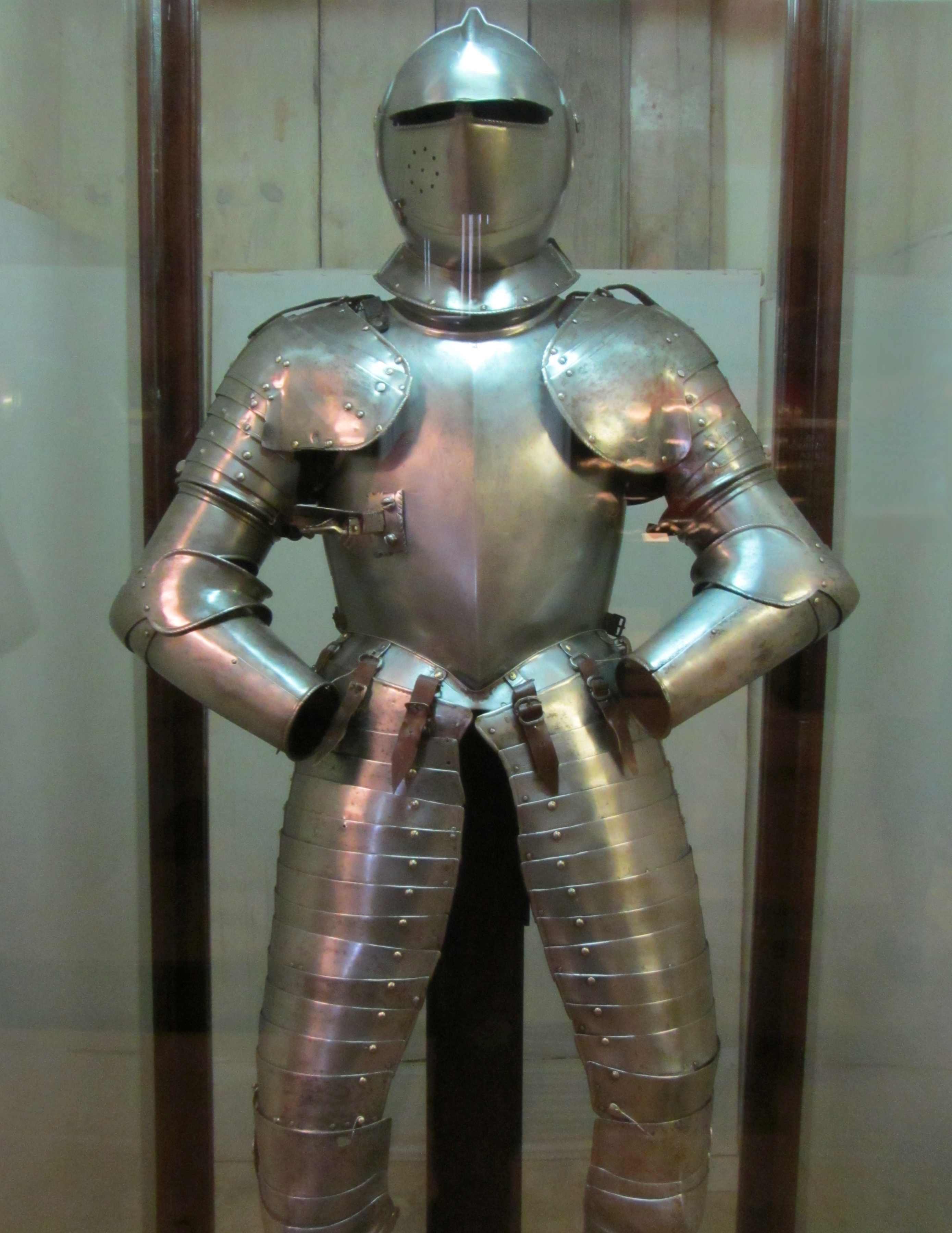 Cavalry armour 'Maestro del Castello', late 16th century, exposed in the Palace Armoury (Valletta)